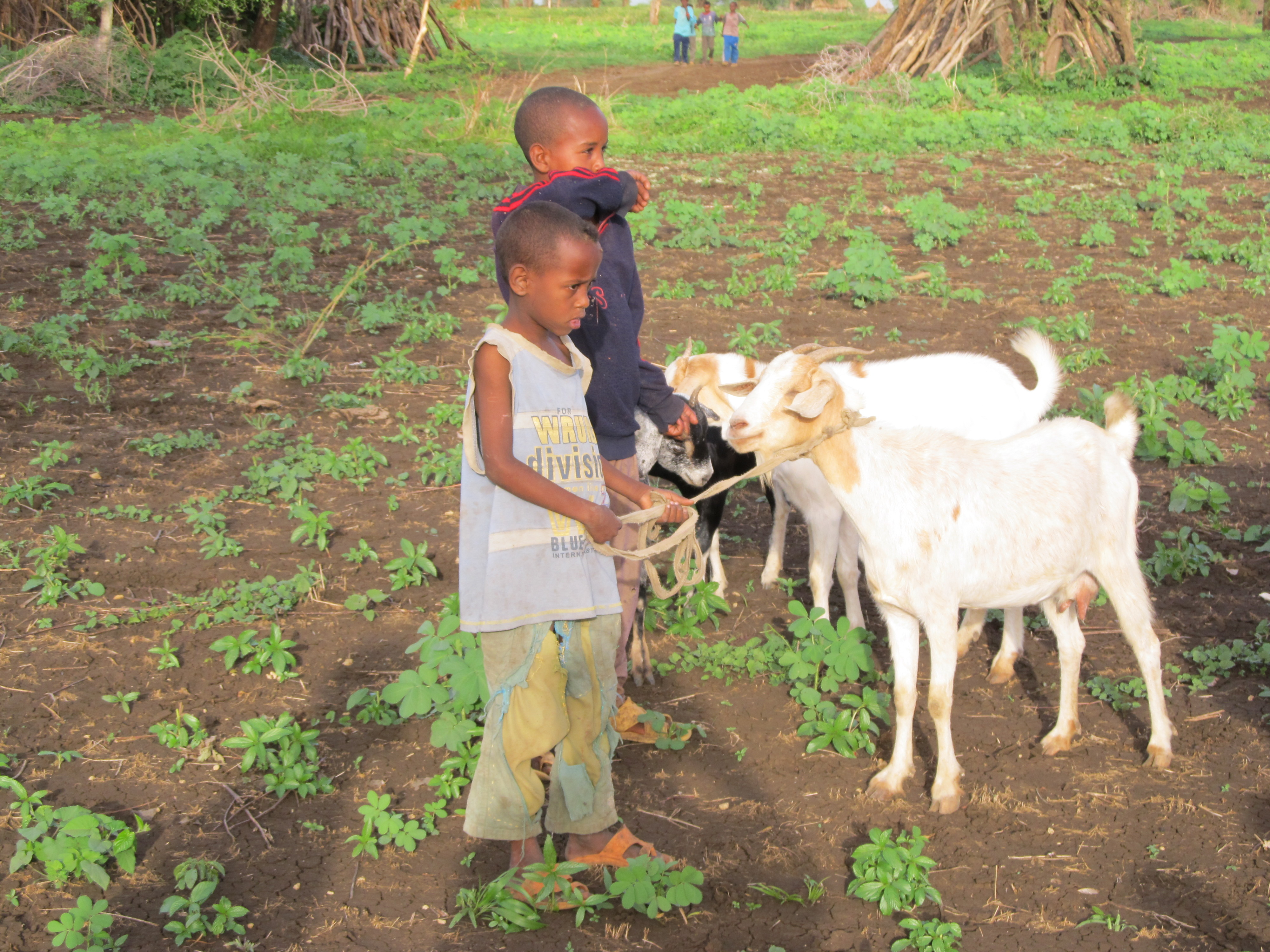 Goats are an important part of the solution to global food security because they are fairly low maintenance and easy to raise and farm. U.S. Department of Agriculture’s (USDA) Agricultural Research Service (ARS) geneticist Tad Sonstegard is part of an international team that is gathering genetic data on goats. The team is using this information to ultimately improve goat production for U.S. and international farmers to help feed families across the globe. USDA ARS photo by Heather Huson.